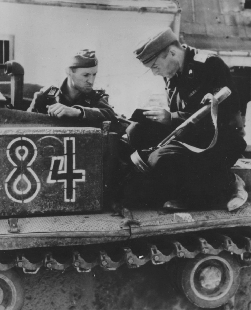 German and Russian Liberation Army (ROA - see the arm patch) soldiers fighting during Warsaw Uprising.